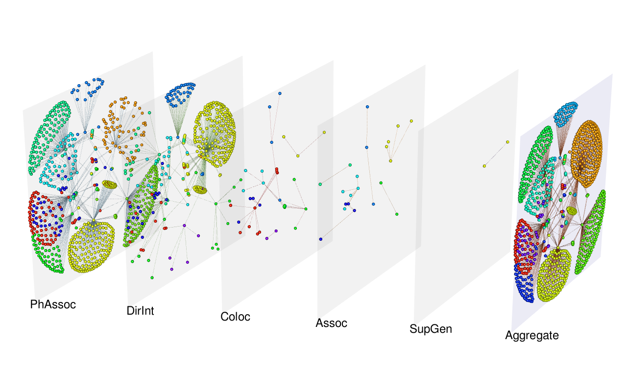 Multilayer representation of the multiplex Human HIV-1 protein-protein interaction network. Visualization made with the muxViz software